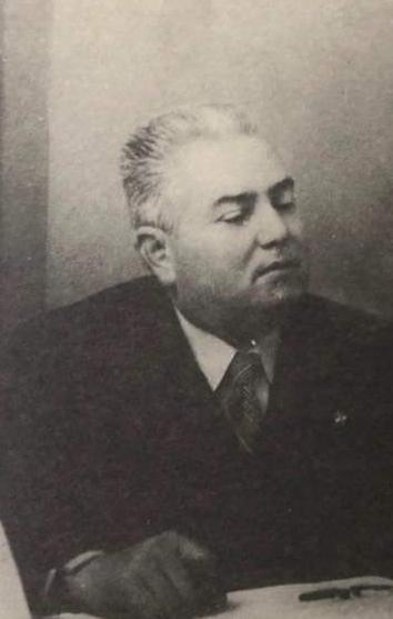 Poet Enrico Ricciardi